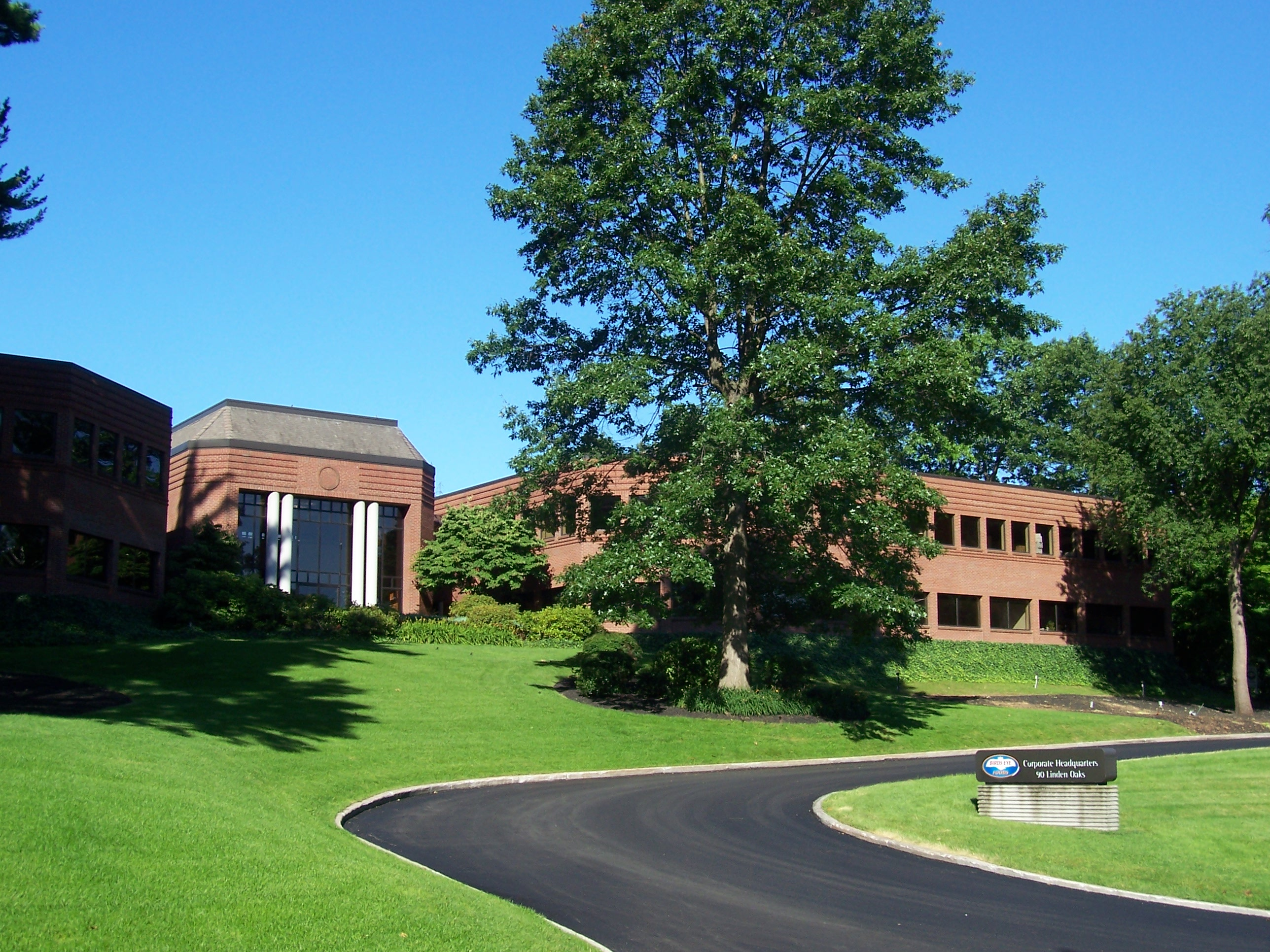 Former Birds Eye Foods headquarters in Brighton, New York